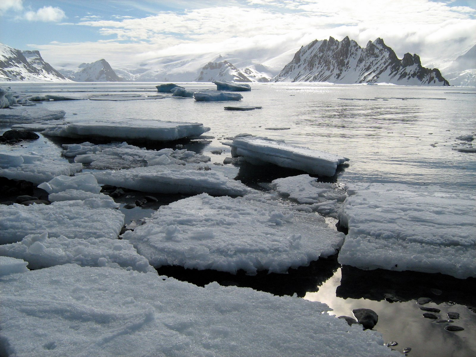 Ezcurra Inlet (covered by sea ice), King George Island